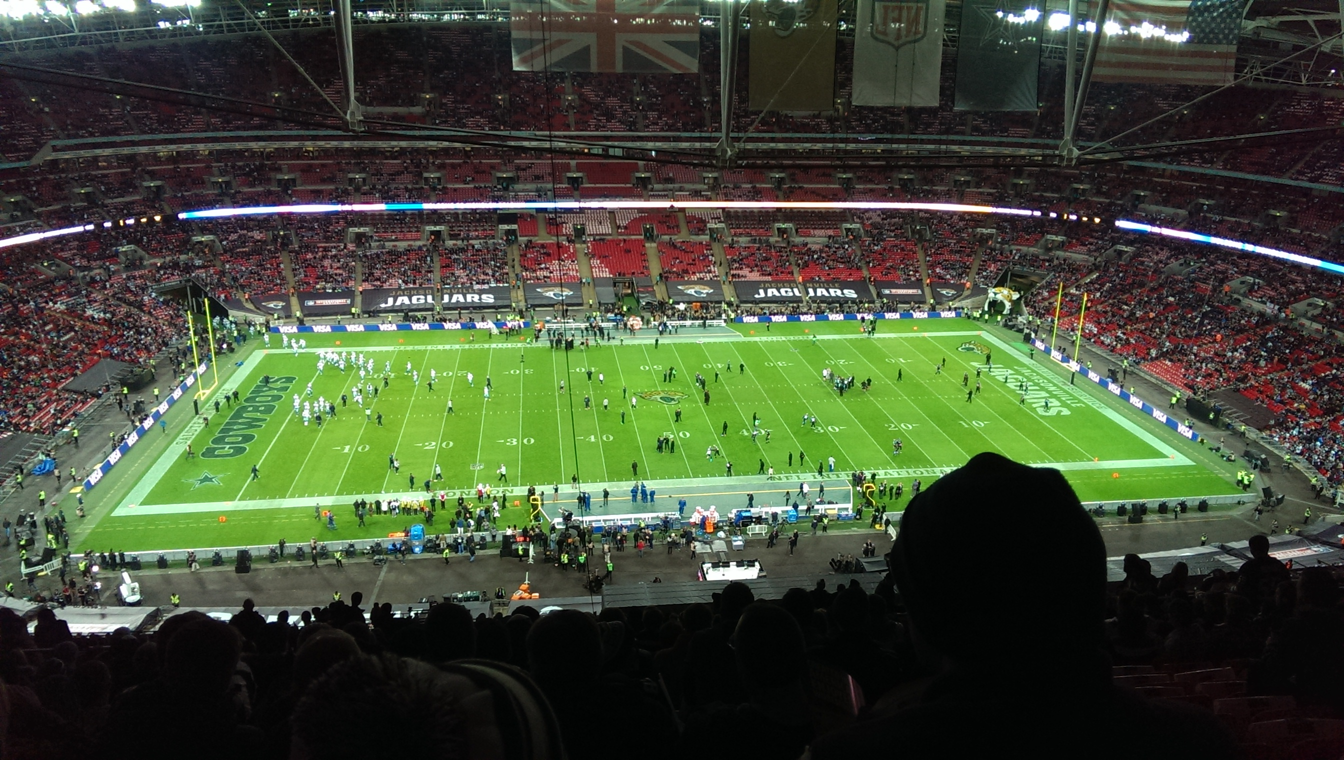 Dallas Cowboys vs Jacksonville Jaguars (NFL International Series) at Wembley Stadium 9/11/14